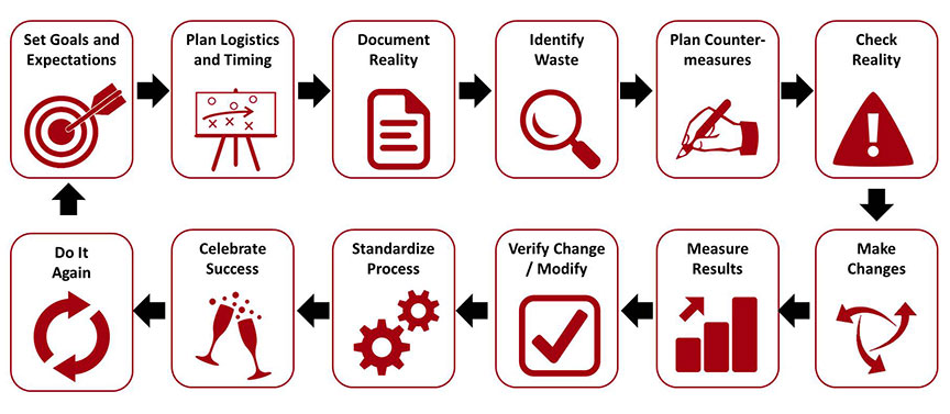 Kaizen extended process